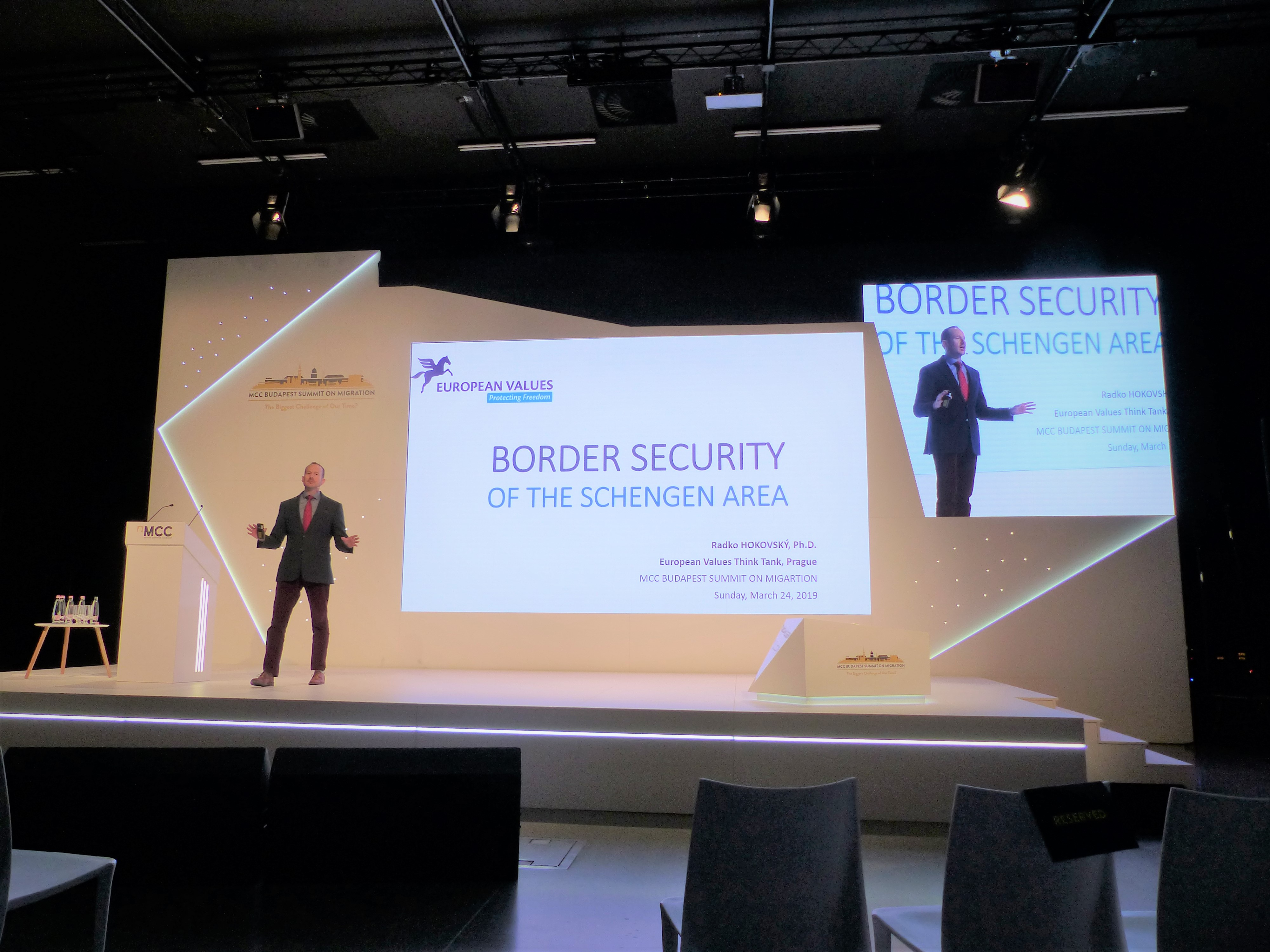 Radko Hokovský, Prague, European Values Think Tank.- Border Security of the Schengen Area. MCC Budapest Summit on Migration, third day, on the 24th of March, 2019.